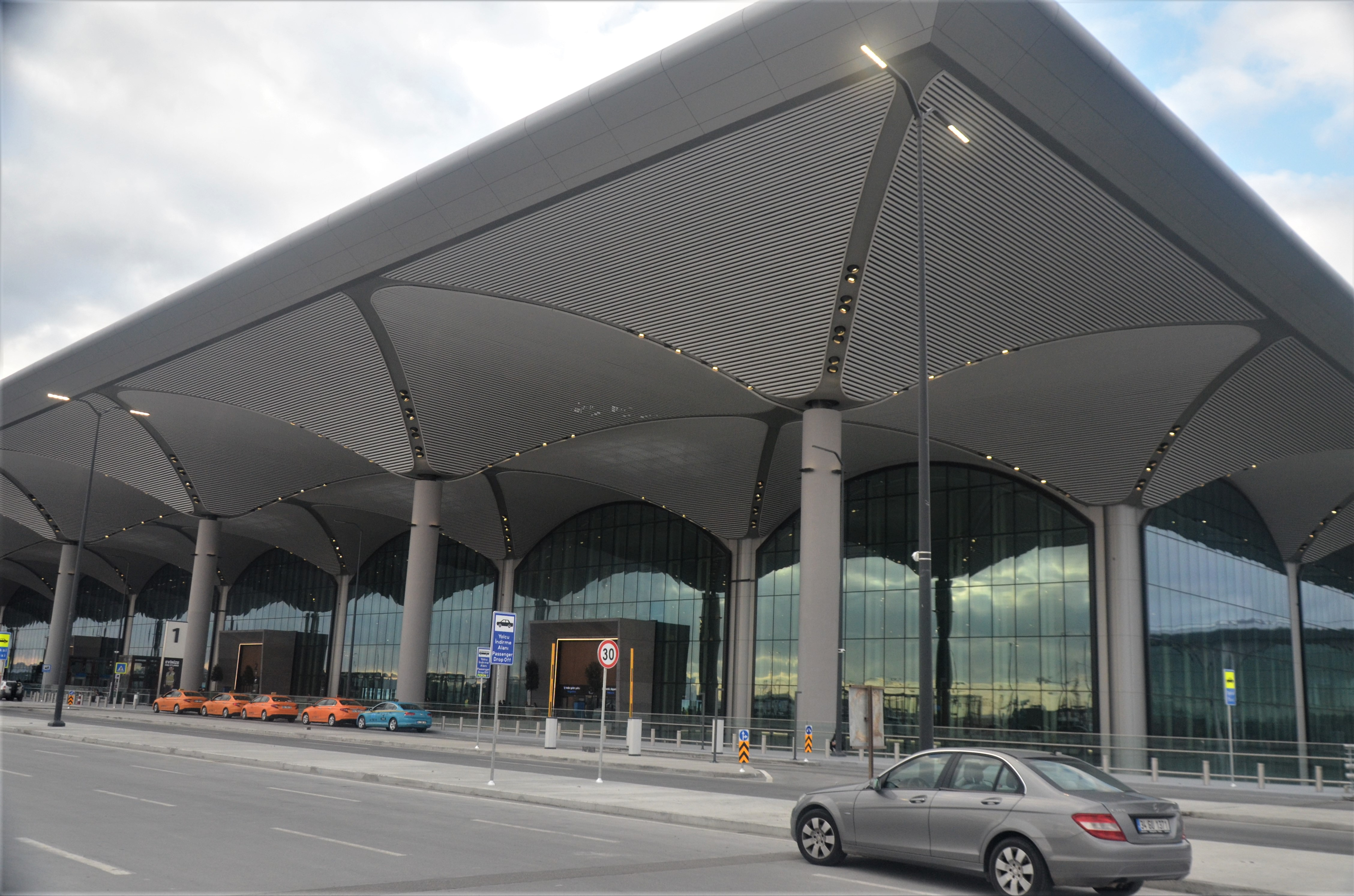 Terminal building of Istanbul Airport